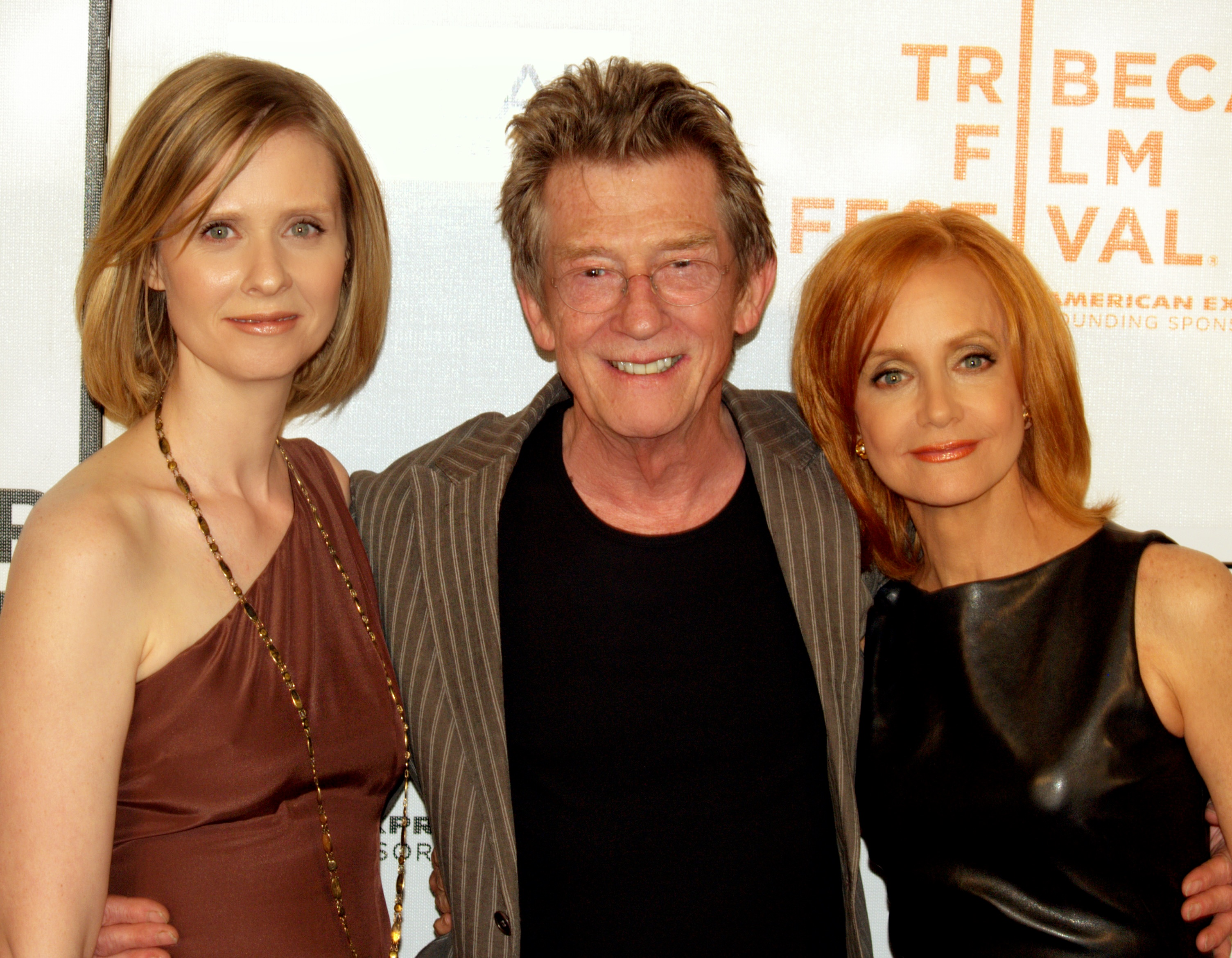 Cynthia Nixon, John Hurt and Swoosie Kurtz at the 2009 Tribeca Film Festival for the premiere of An Englishman in New York. Photographer's blog post about the event at which this photo was taken.